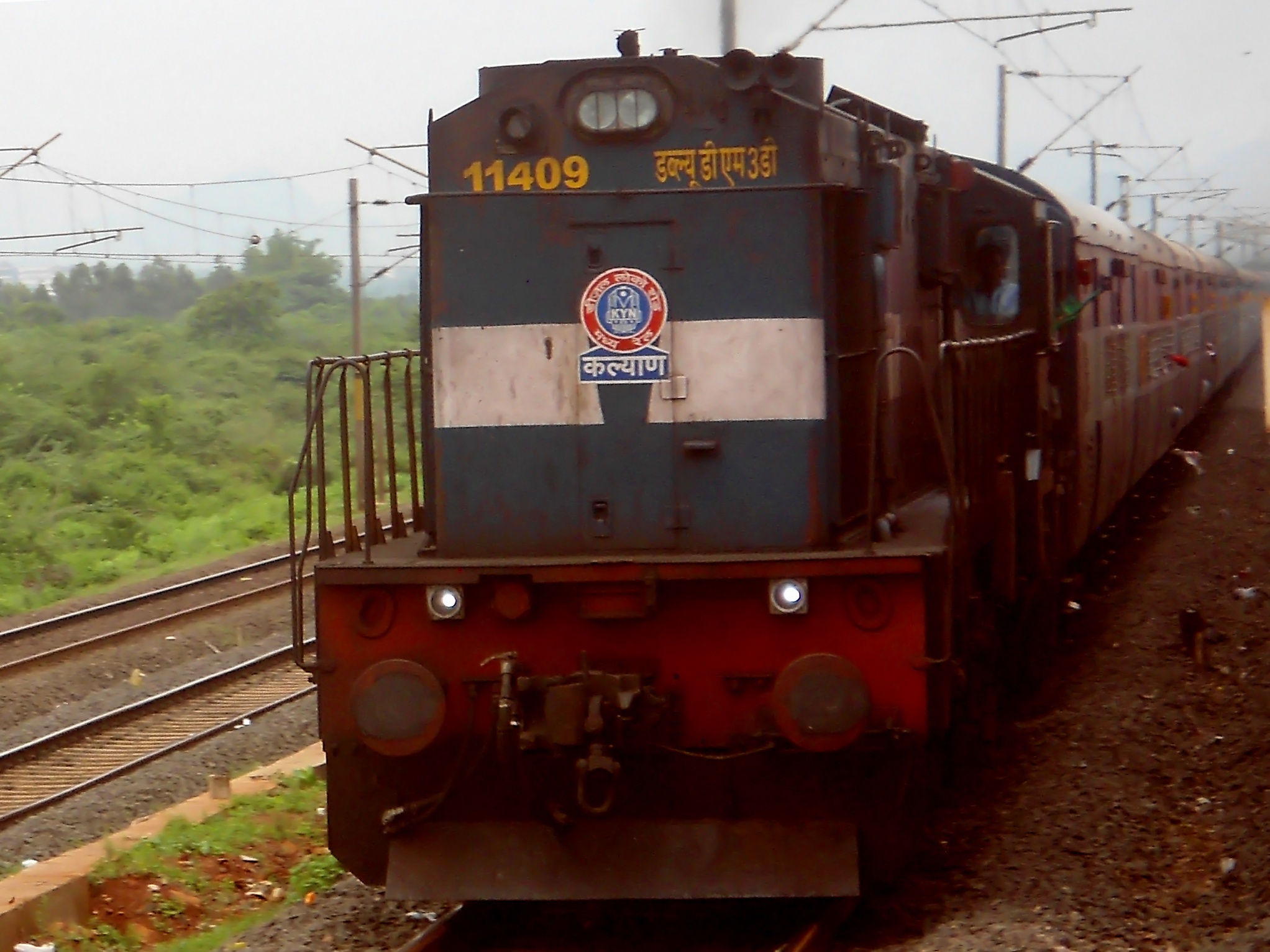 18520 Visakhapatnam bound (Mumbai LTT - Visakhapatnam) Express hauled by a WDM-3D Loco of Kalyan Shed, Thadi, Visakhapatnam